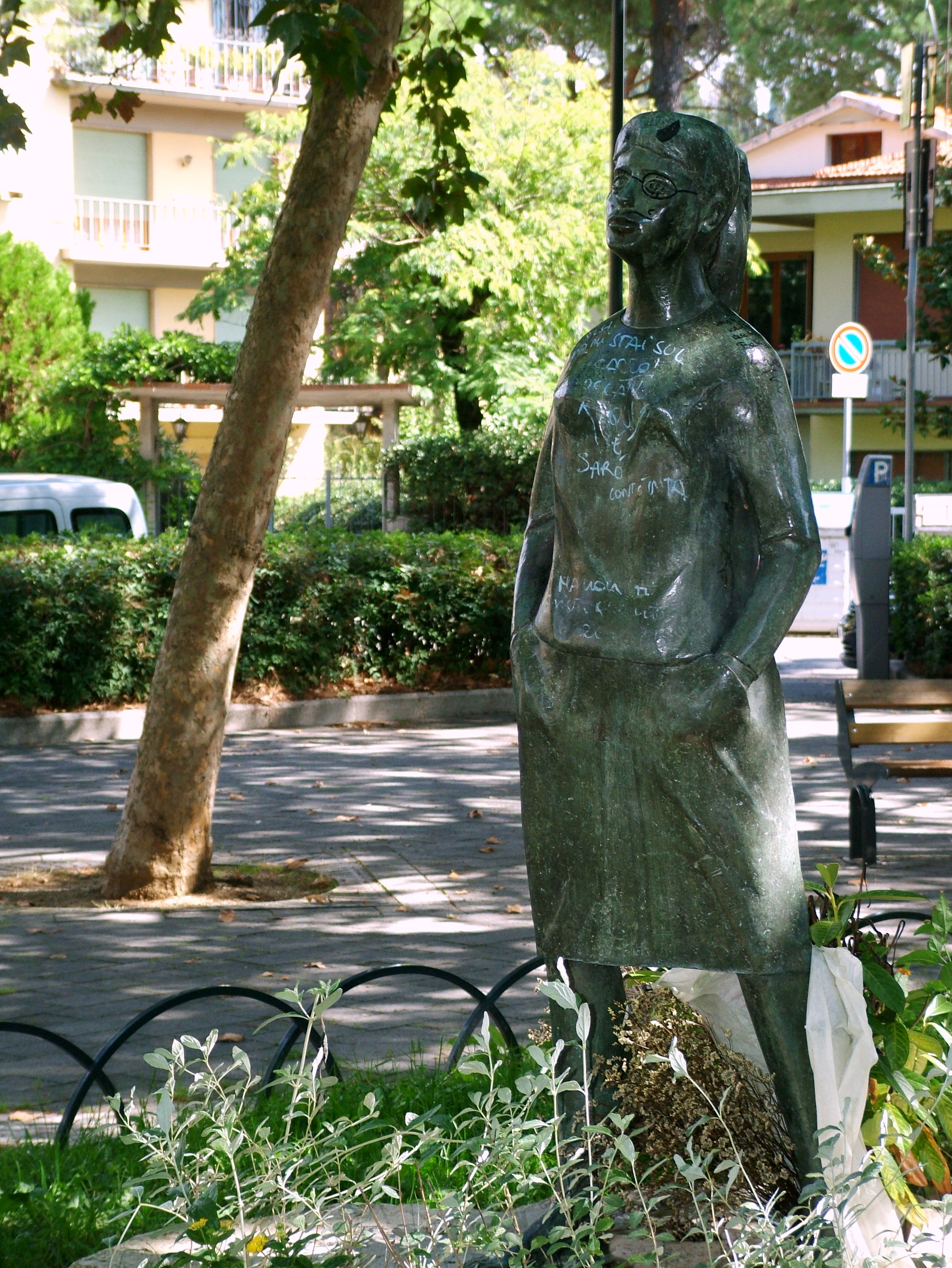 vandals' work on a statue in piazza fardella, florence